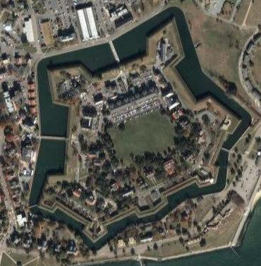 Satellite photo of Fort Monroe.